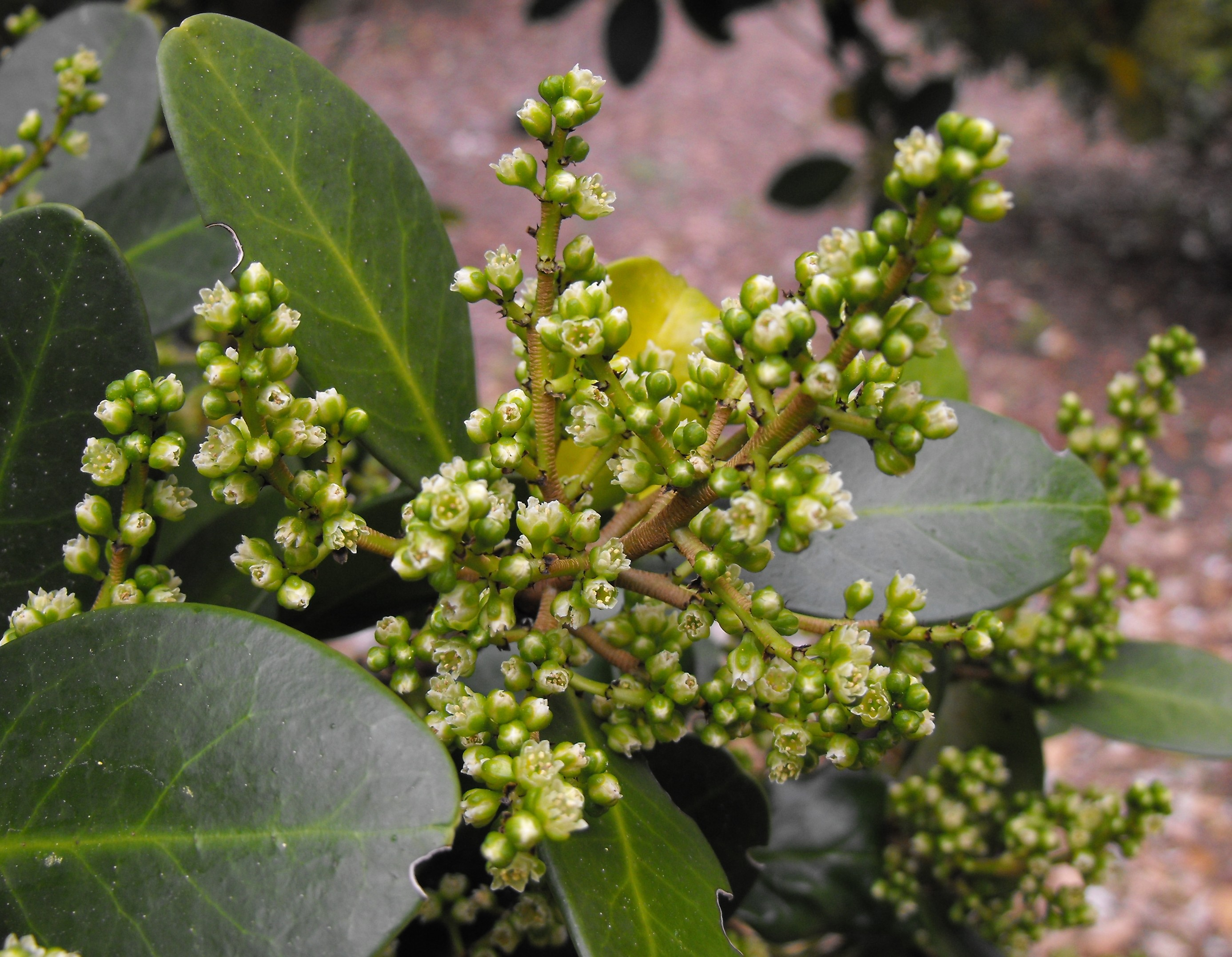 Corynocarpus laevigatus at Quail Botanical Gardens in Encinitas, California, USA. Identified by sign.